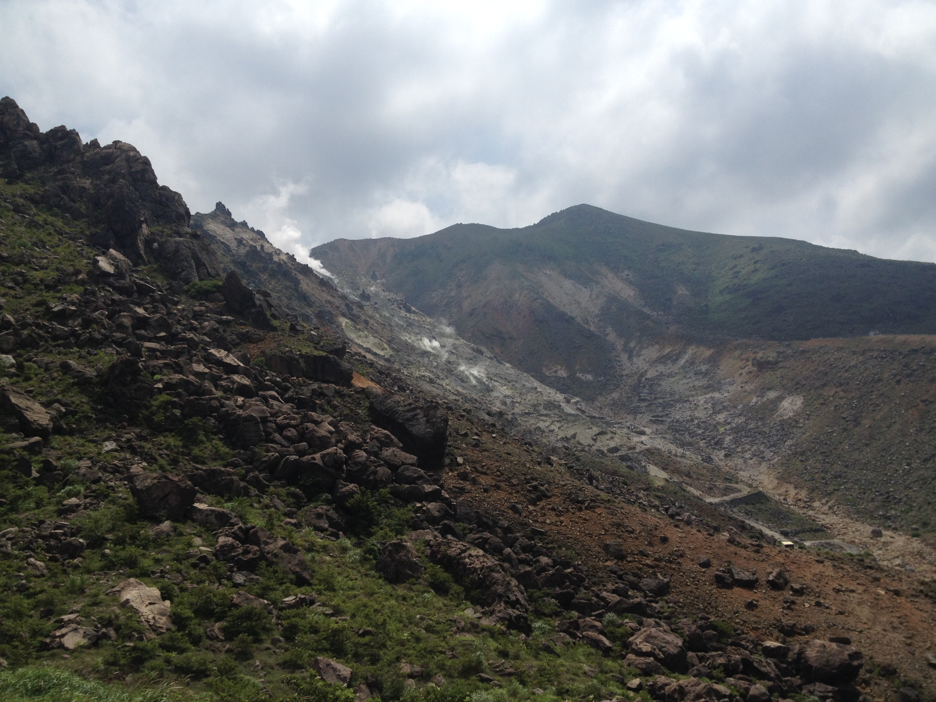 Fumaroles on Mt Hoshisho (星生山). Photo taken on 8/21/2014 on a stroll with the family.